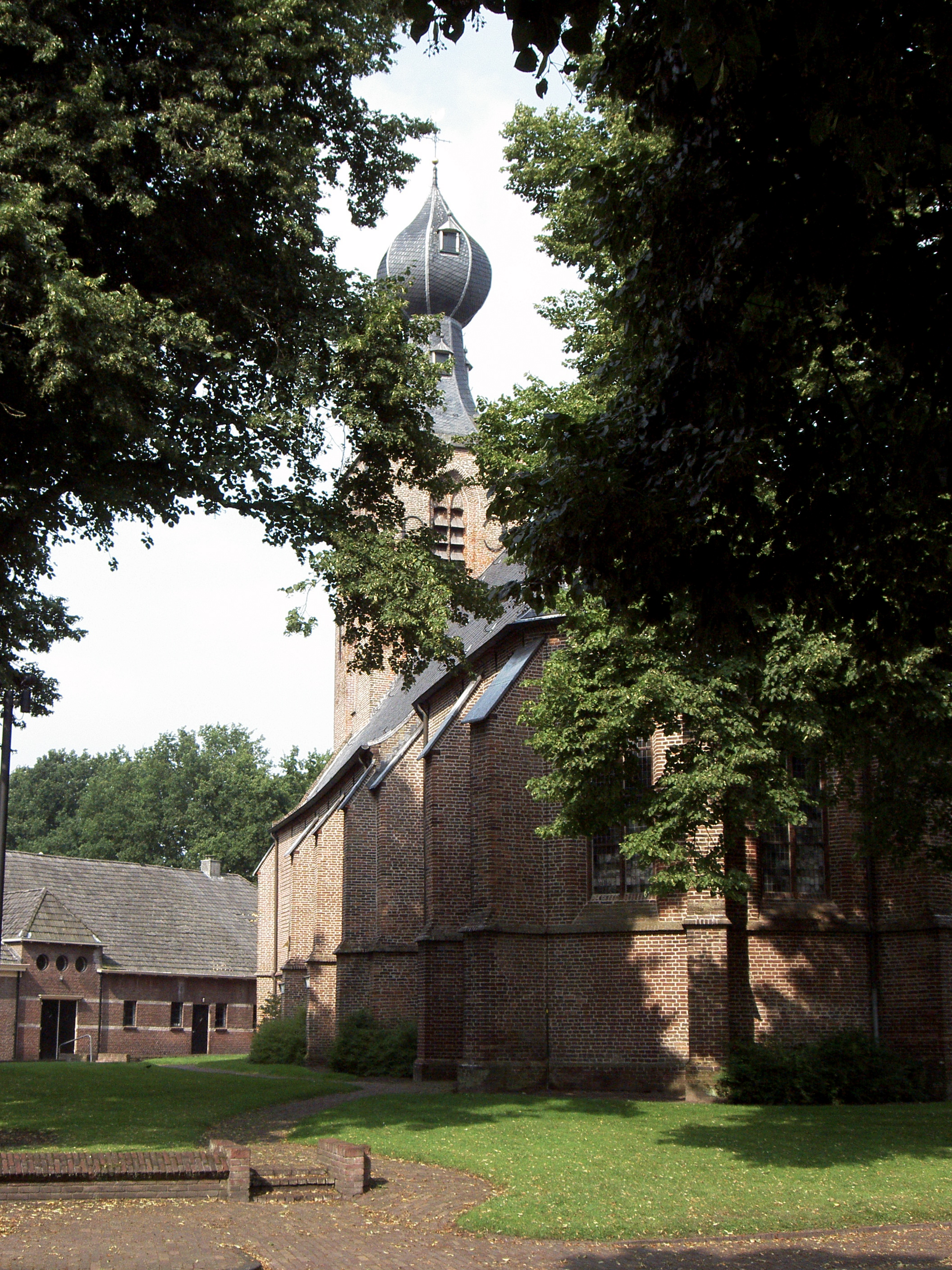 St. Nicolaas church